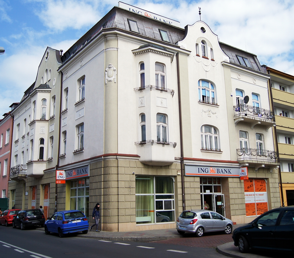 Rzeszów, Sobieskiego